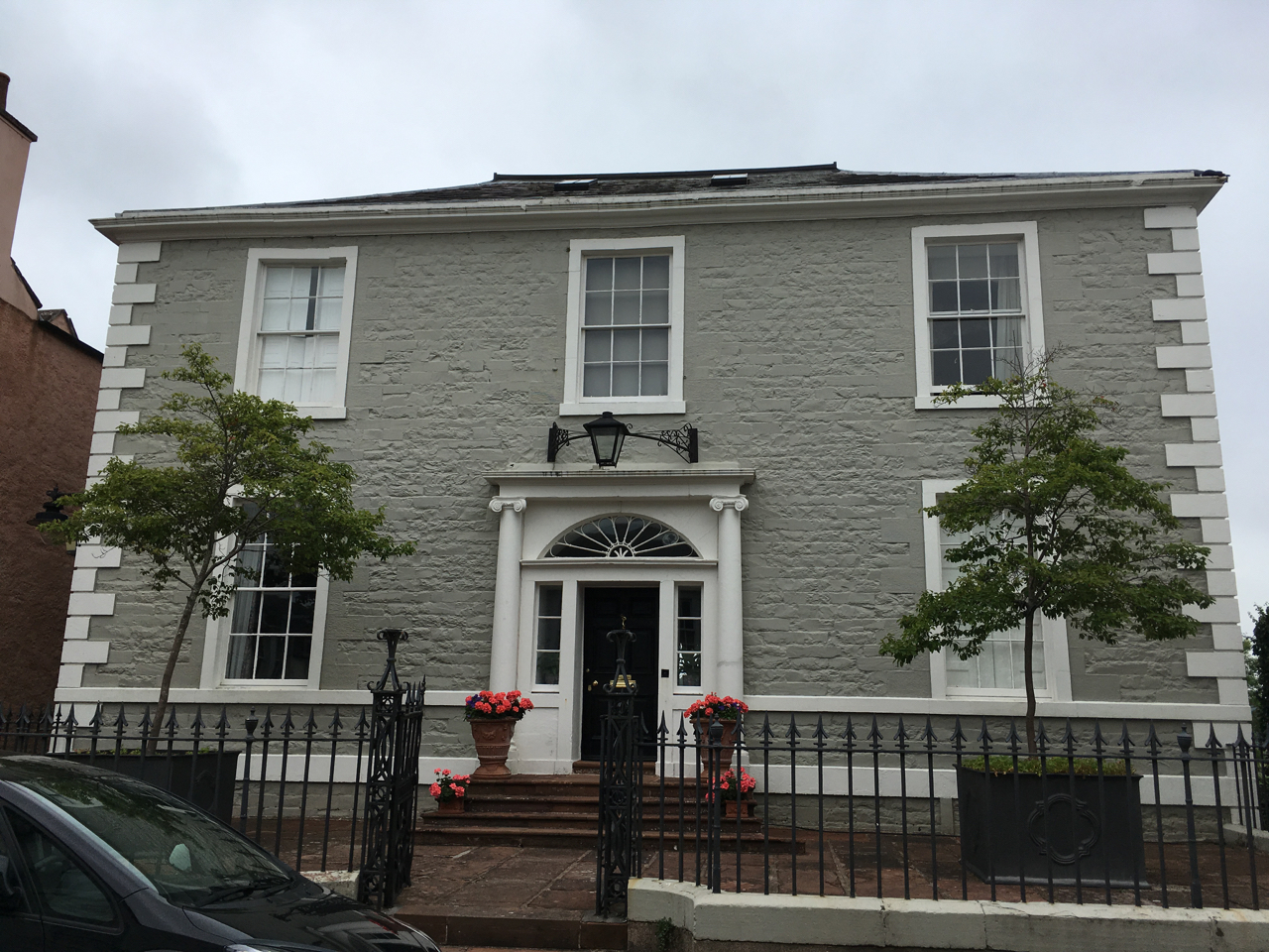 Kirkcudbright, 8 High Street, Blair House Wikidata has entry Q17569920 with data related to this item.